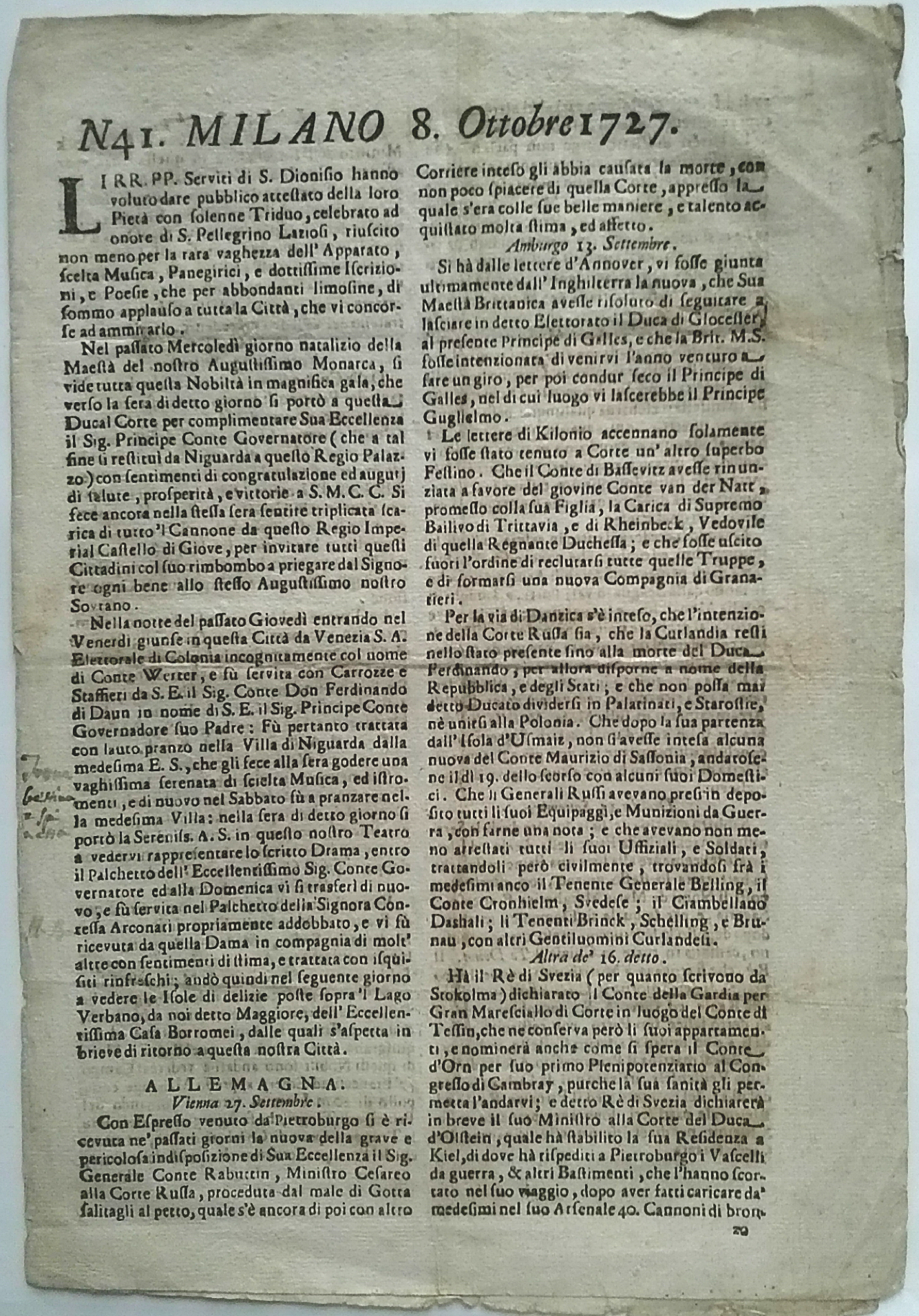 Milano (newspaper) number 41 dated 8 ottobre 1727